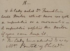 From the Library of Congress: "As the Constitutional Convention adjourned, “a woman [Mrs. Eliza Powell] asks Dr. Franklin well Doctor what we got a republic or a monarchy? A republic replied the Doctor if you can keep it.” Although this story recorded by James McHenry (1753–1816), a delegate from Maryland, is probably fictitious, people wondered just what kind of government was called for in the new constitution."